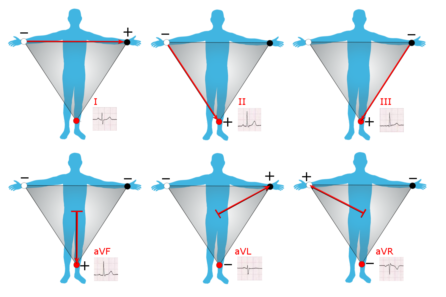 Derivation of the limb leads